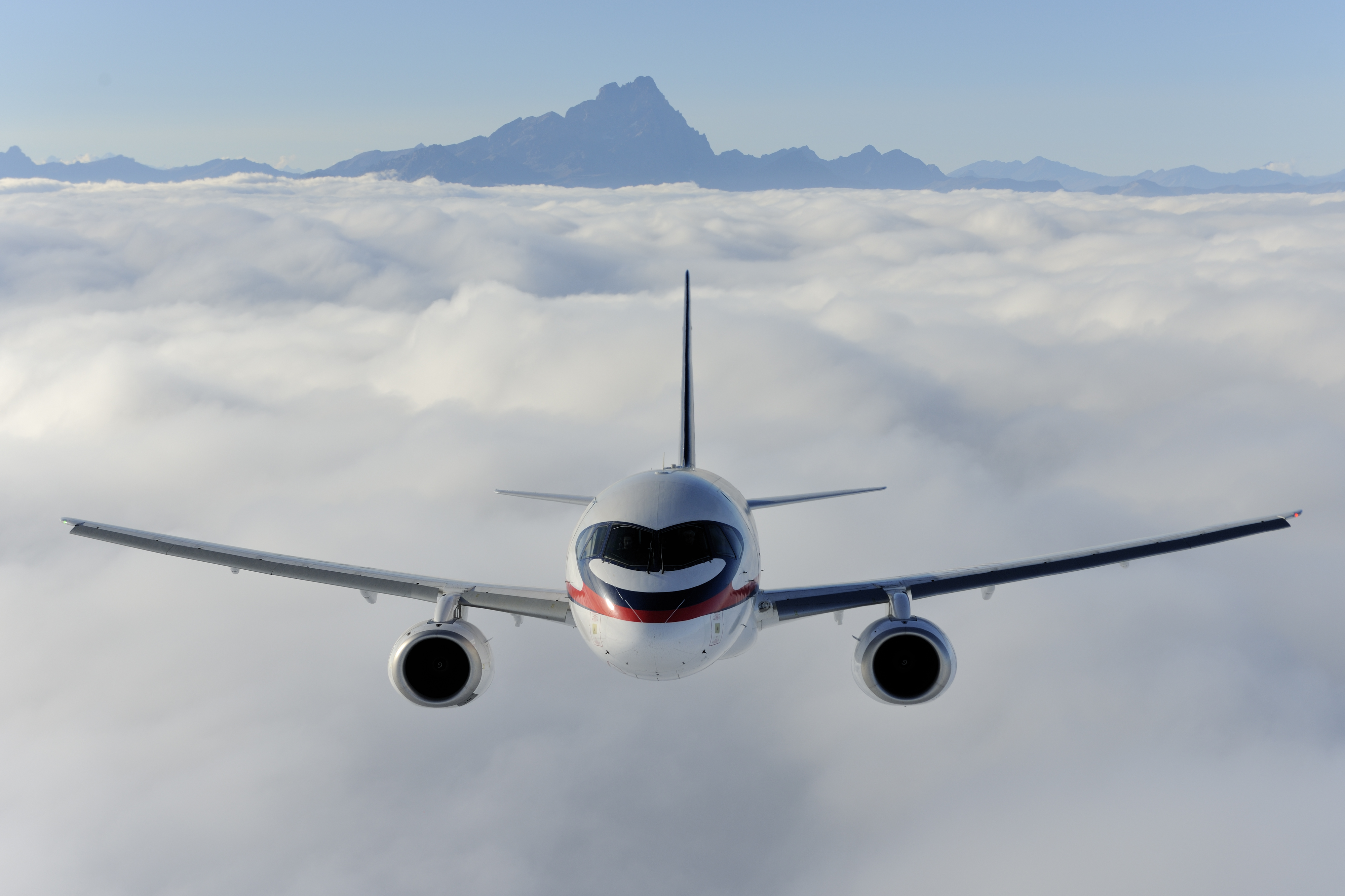 A SCAC/Alenia Aermacchi Sukhoi Superjet 100 (RA-97004) flying off the coast of Italy near Turin.